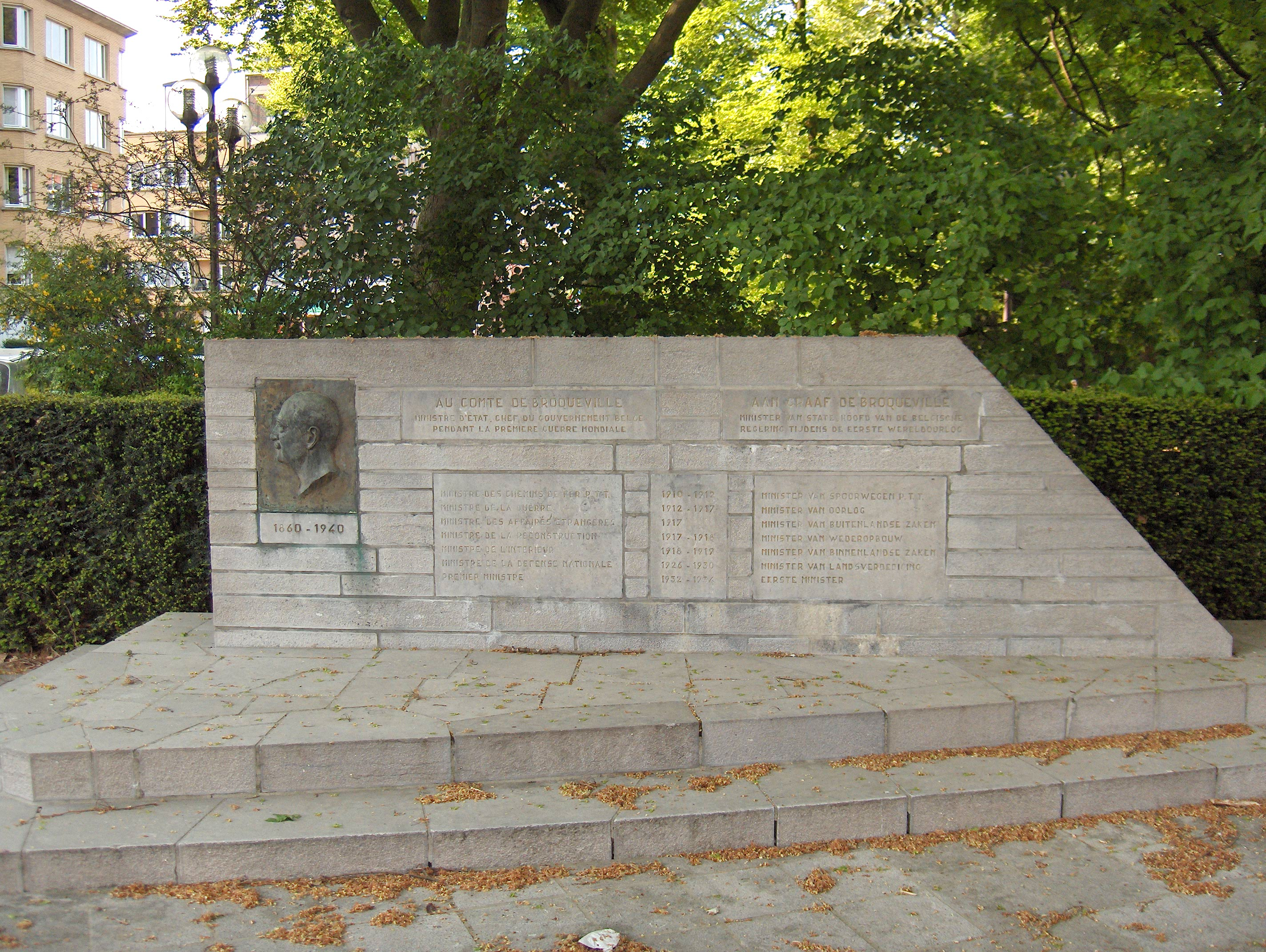 Memorial to Charles de Broqueville (former Prime Minister of Belgium) on Avenue de Broqueville, Woluwe-St-Lambert, Brussels, Belgium